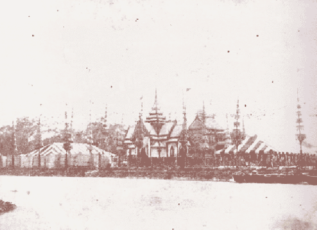 Royal Crematorium of Prince Issariyaporn and Princess On-arnong 1896 (Wat Debsirin)